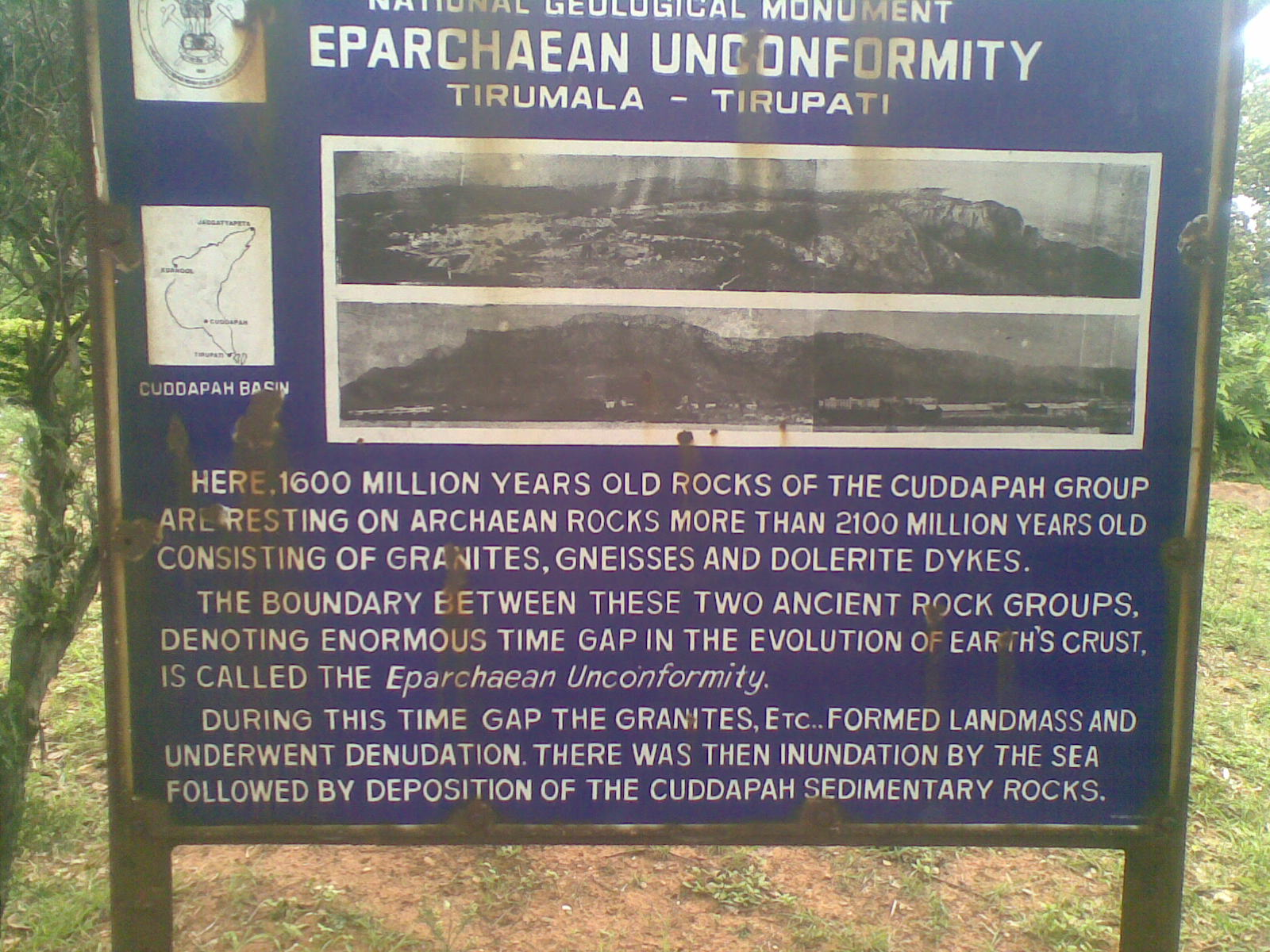 Plate displayed at Tirumala hills 12 km from Tirumala which gives details of Eparchean Unconformity